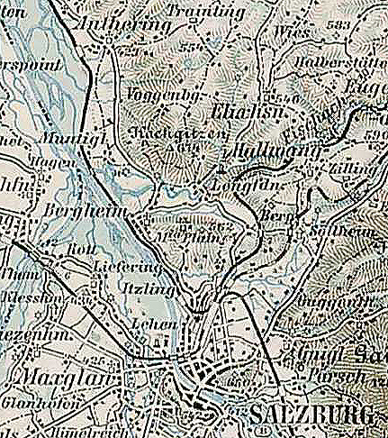 3rd Military Mapping Survey of Austria-Hungary - Salzburg ; detail: Söllheim (Berg/Esch/Zilling